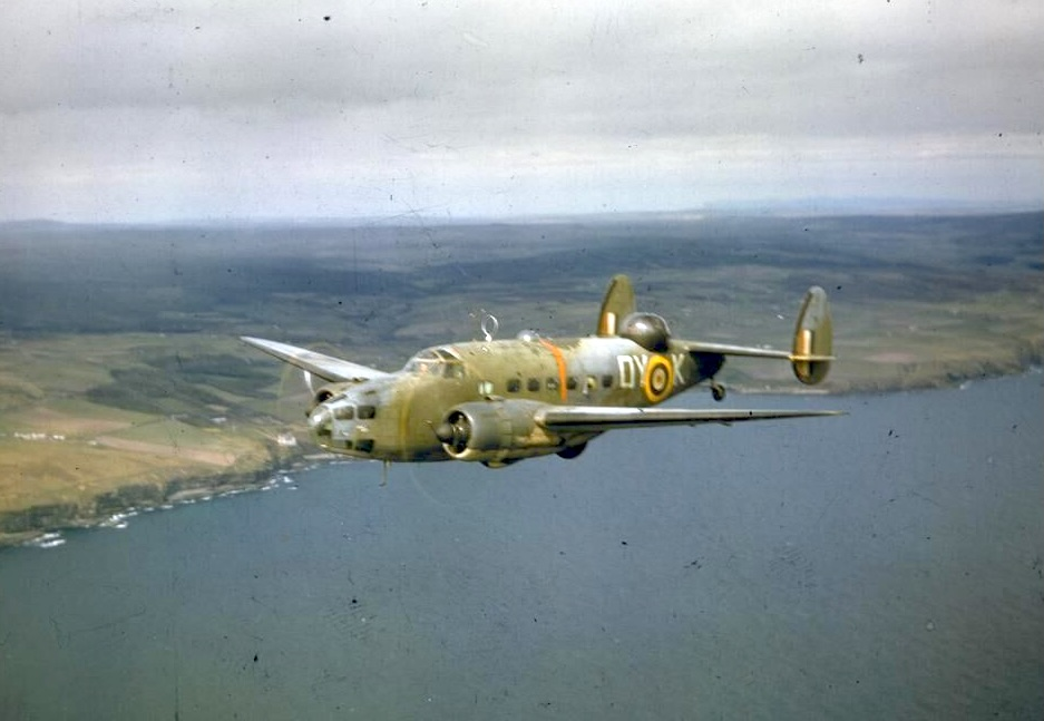 A Lockheed Hudson Mark V, AM853 'OY-K', of No 48 Squadron RAF based at Wick, Caithness, Scotland, in flight along the coast, early 1942.